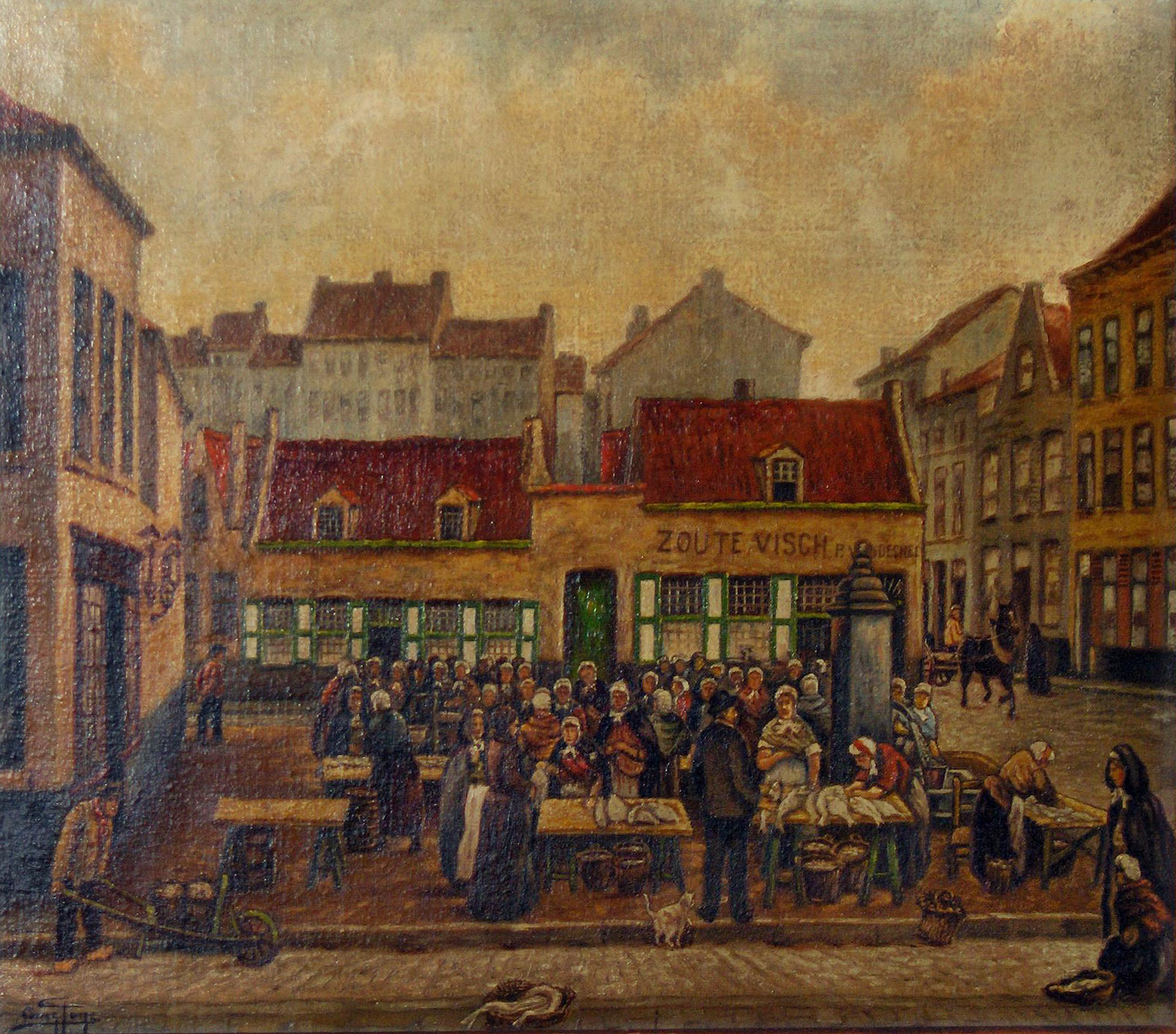 The old fish market of Ostend, Belgium (19th century) - anonymous painting - private collection